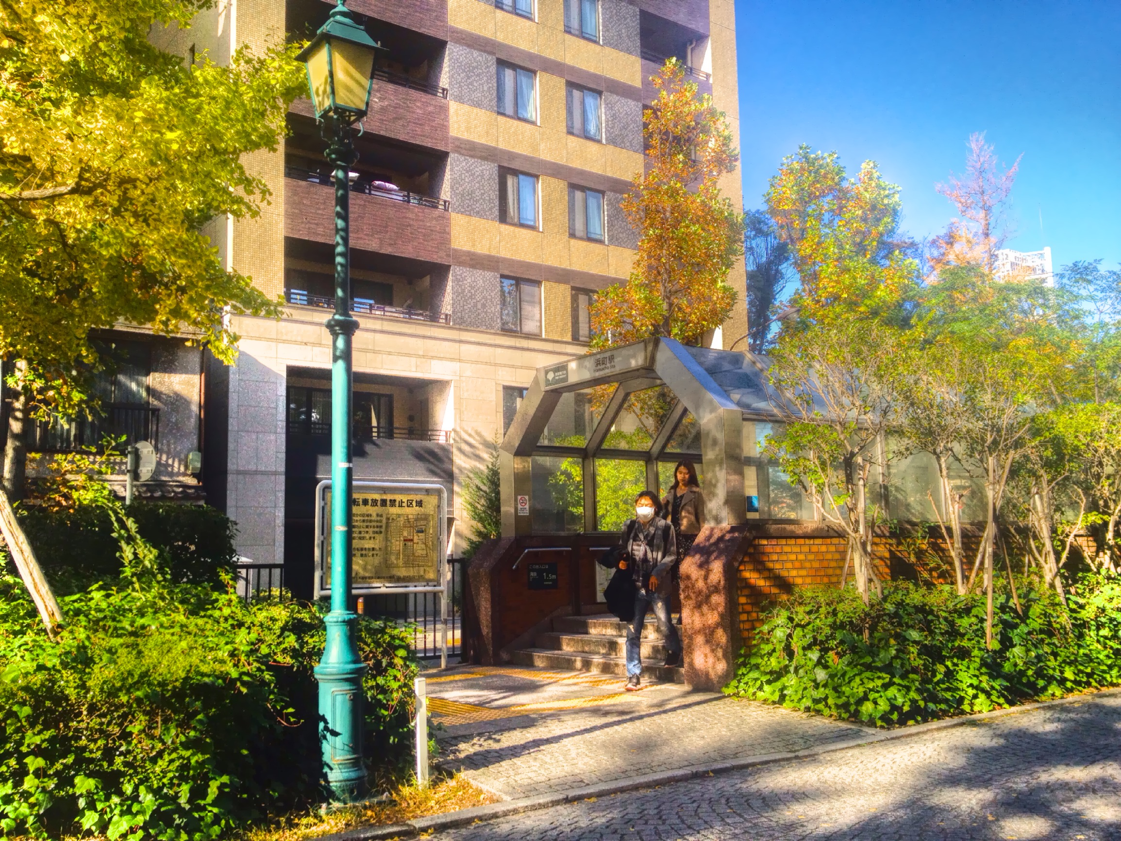 浜町駅のA2出口 (Hamachō Station A2 exit)